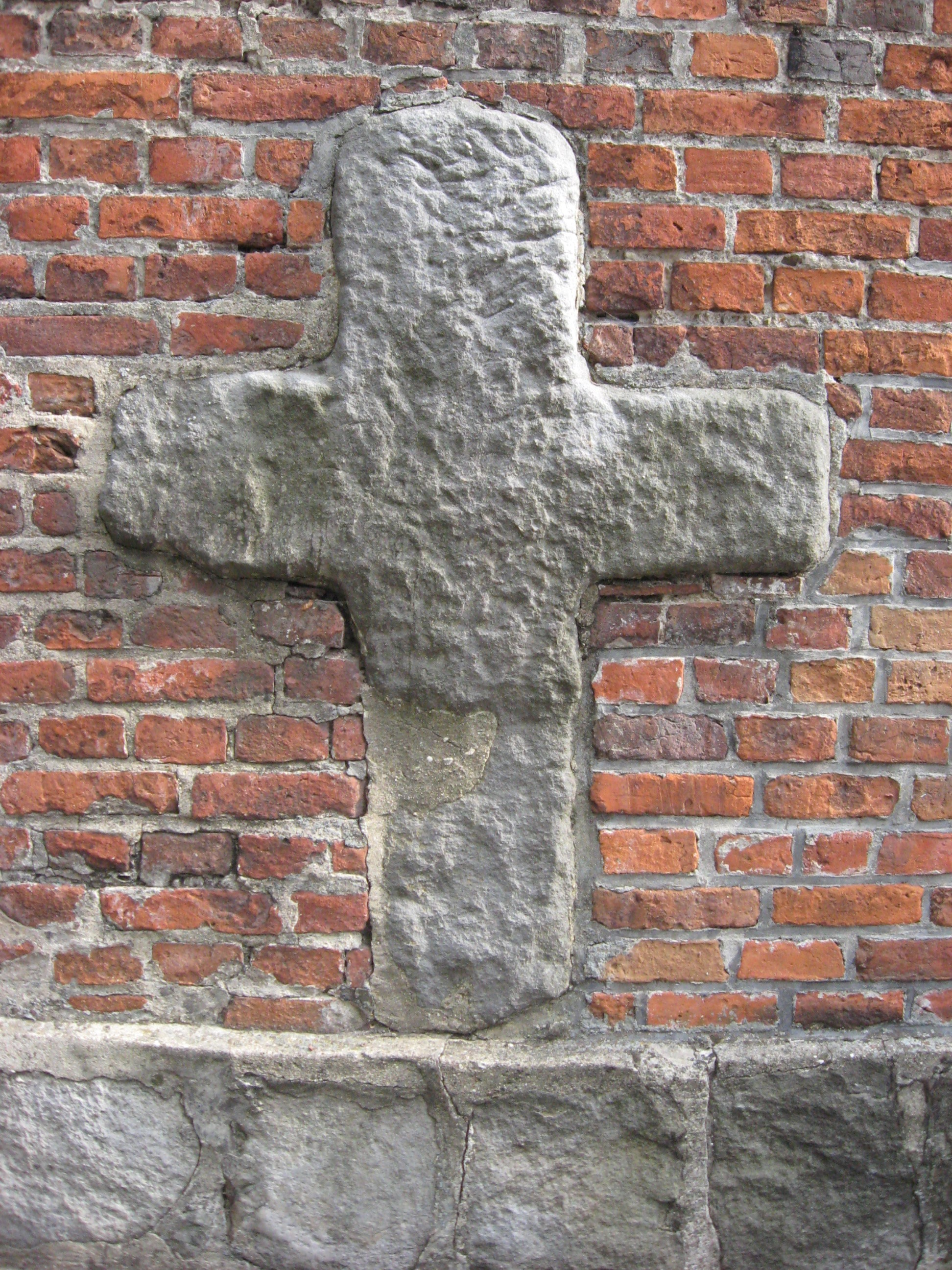 Konin - Romanesque cross on the north wall of St. Bartholomew's parish church